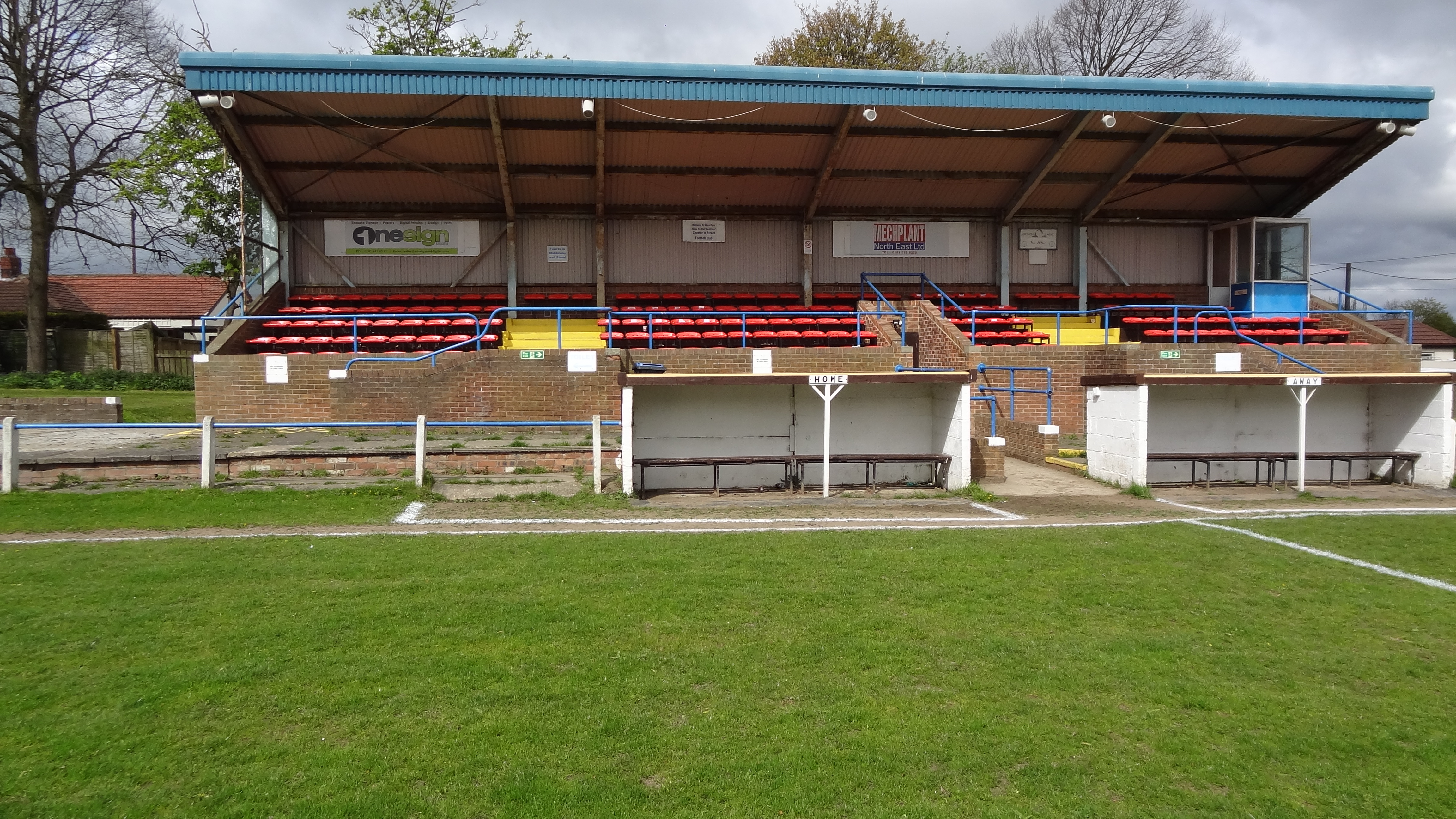 Moor Park, Cheser le Street